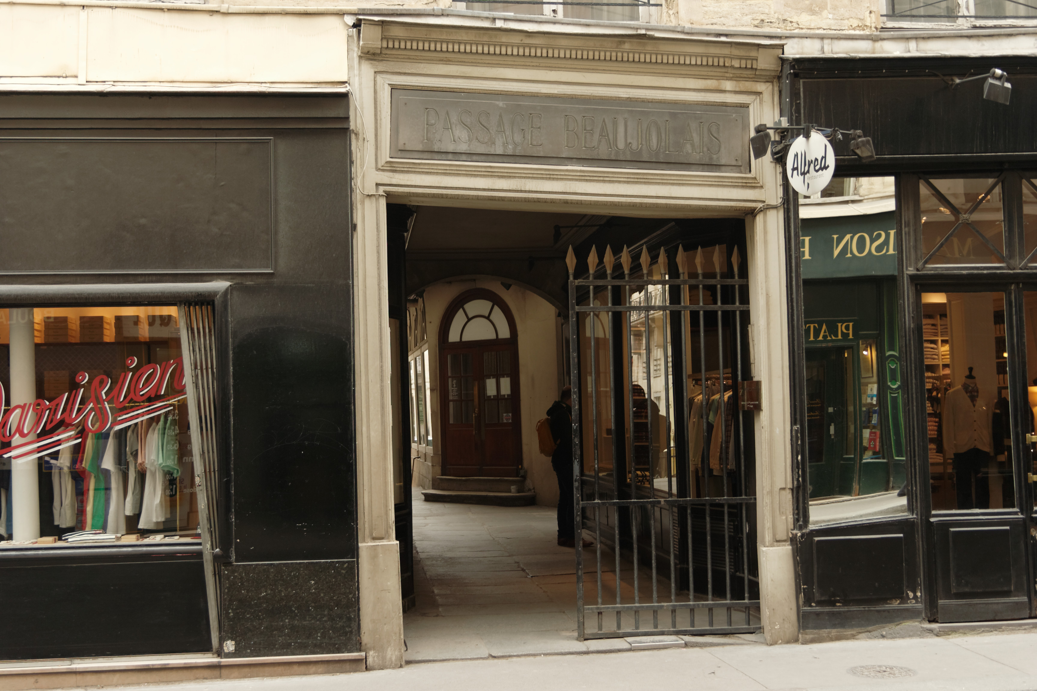 Passage de Beaujolais, Paris. Gate from rue de Richelieu